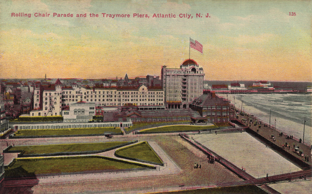 Glossy postcard of Rolling Chair Parade and Traymore Piers, Atlantic City, New Jersey. Back is divided and reads "Pub. by American Nov. Co., 143 South Virginia Ave., Atlantic City, N. J."